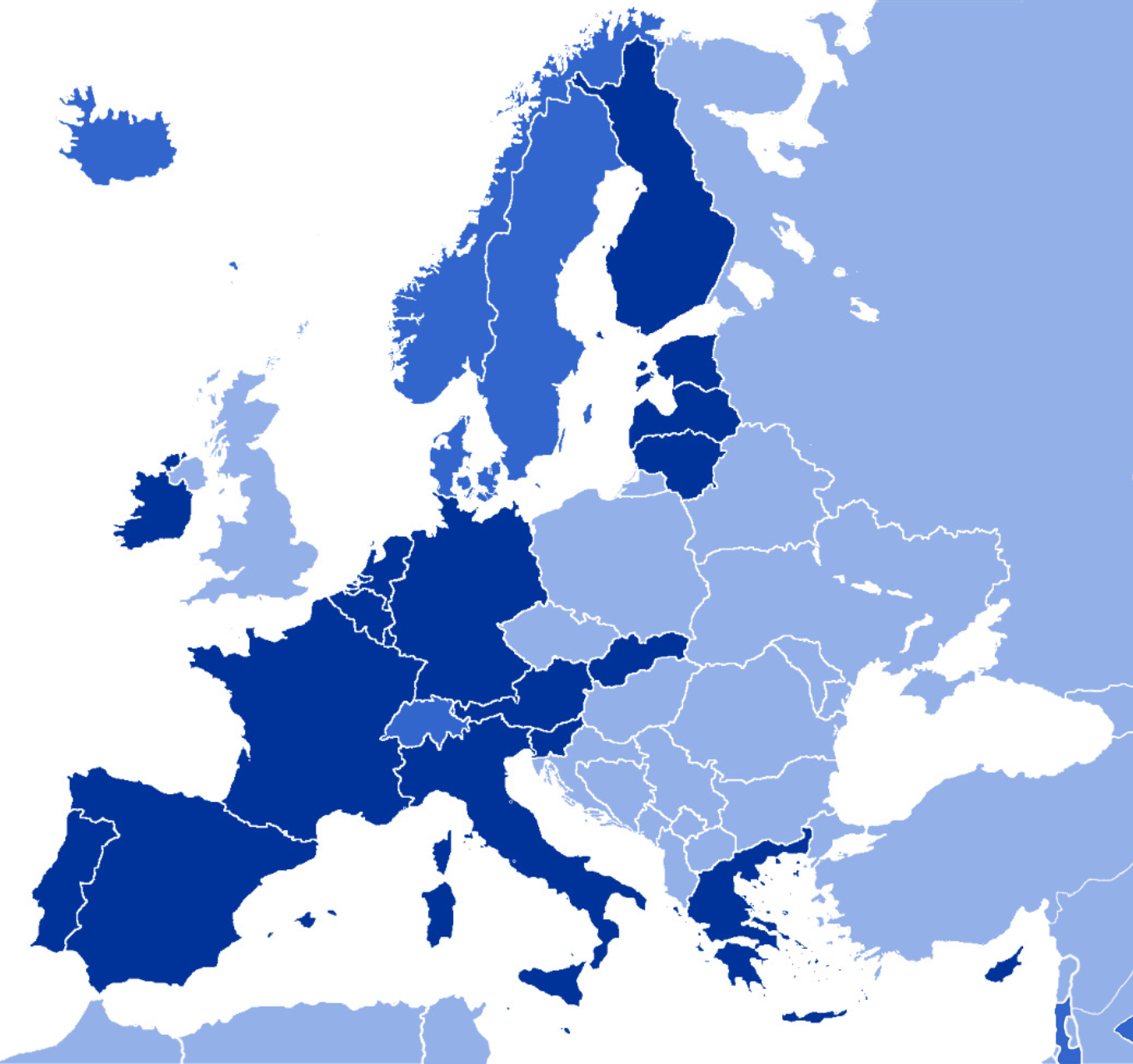 The GNI PPP per capita of Europe according to the World Bank, 2017. Dark blue signifies the Eurozone, at 44,000 USD. Light blue signifies countries with a GNI PPP per capita higher than 44,000 USD. Lighter blue signifies countries with a GNI PPP per capita lower than 44,000 USD.